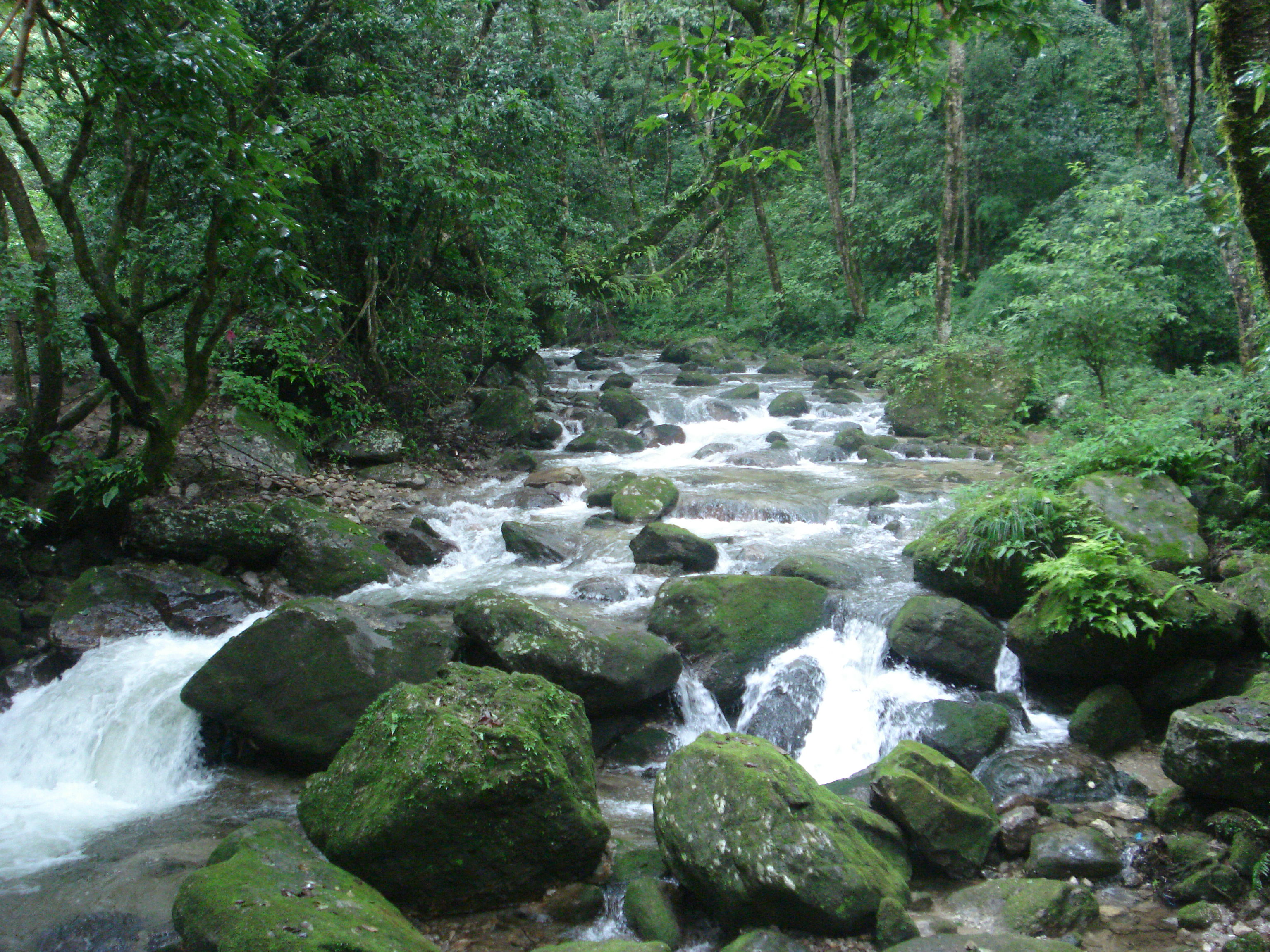 Bagmati River